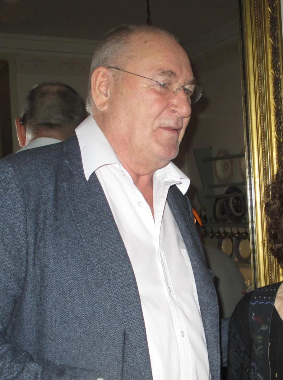 Swedish actor Stephan KarlsénPlace: Pontén residence, Götgatan, Stockholm, Sweden